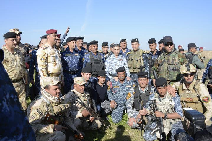 Mohammed Al-Ghabban Iraq Minister of Interior with Federal Police force